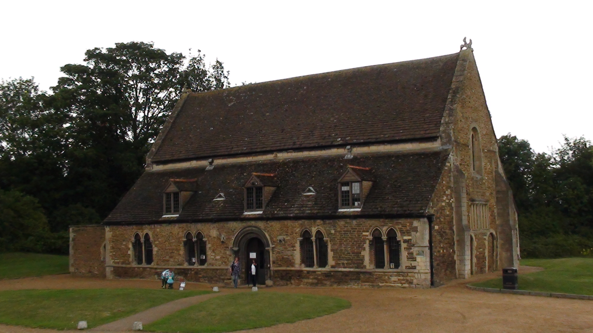 A picture of Oakham Castle.